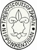 inkan seal of Nippon Kenjidan, precursor to the SAJ